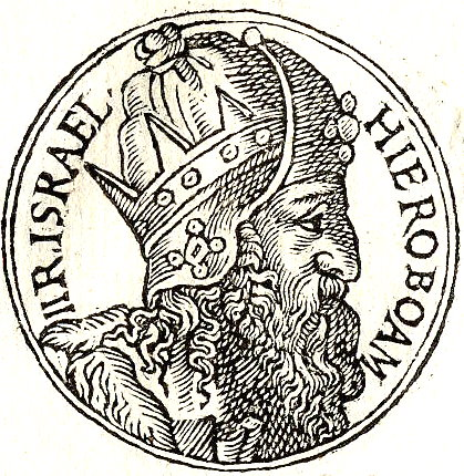 Jeroboam II was the son and successor of Jehoash, and the fourteenth king of the ancient Kingdom of Israel.